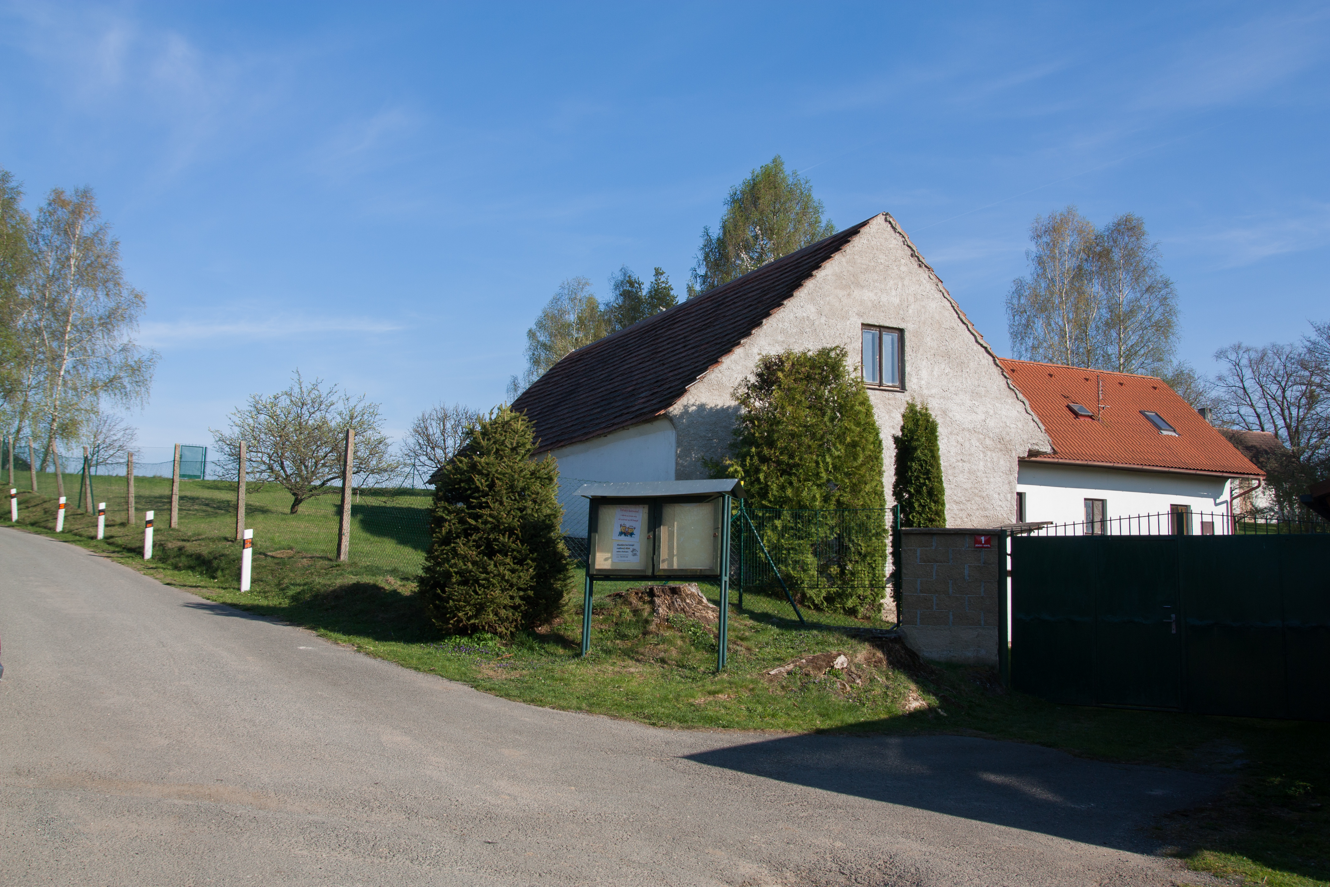 House in the village of Dědičky, Tábor District, South Bohemian Region, Czechia